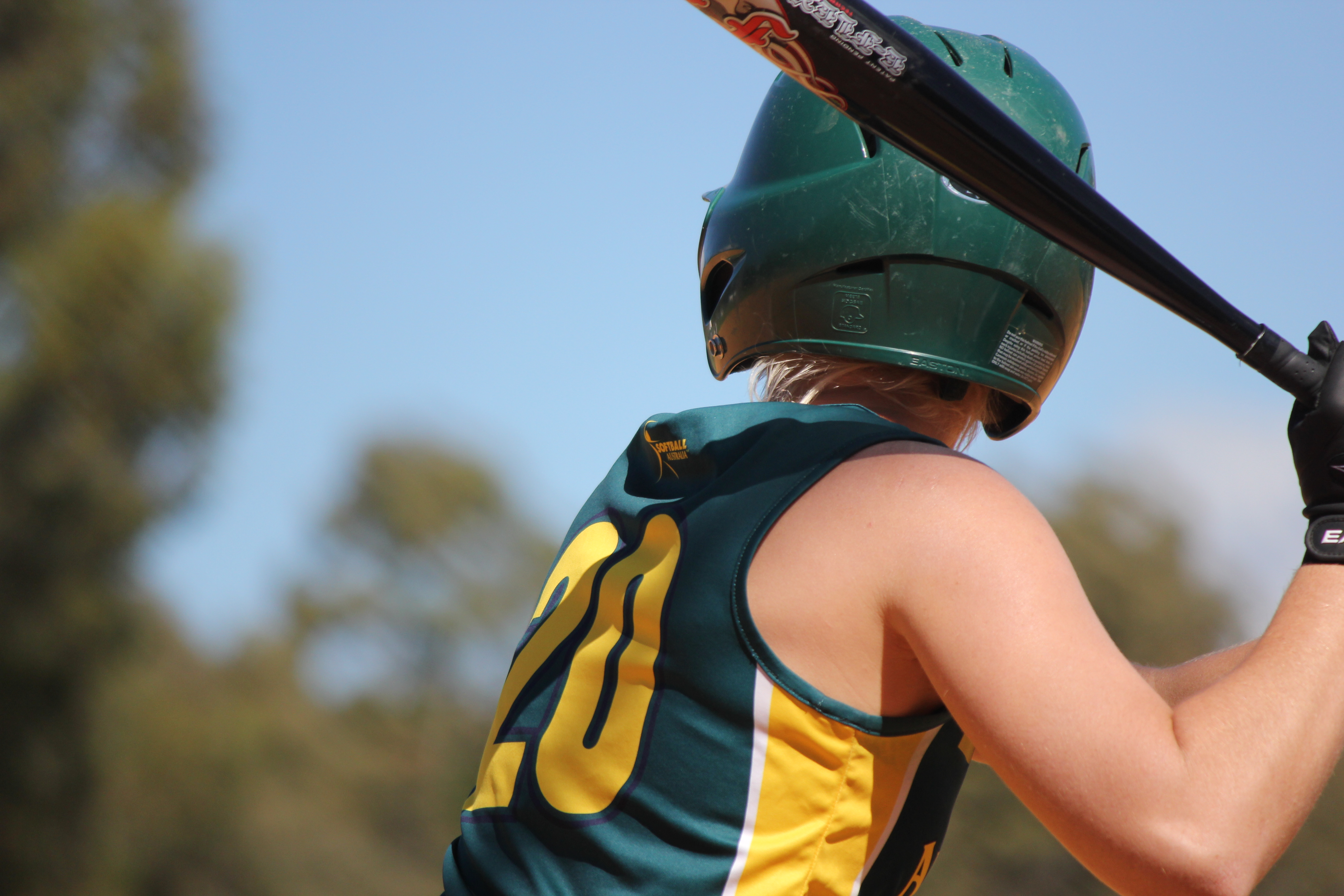 24 March 2012 game between Australia and Japan at Hawker International Softball Centre. 20 Melinda Weaver.